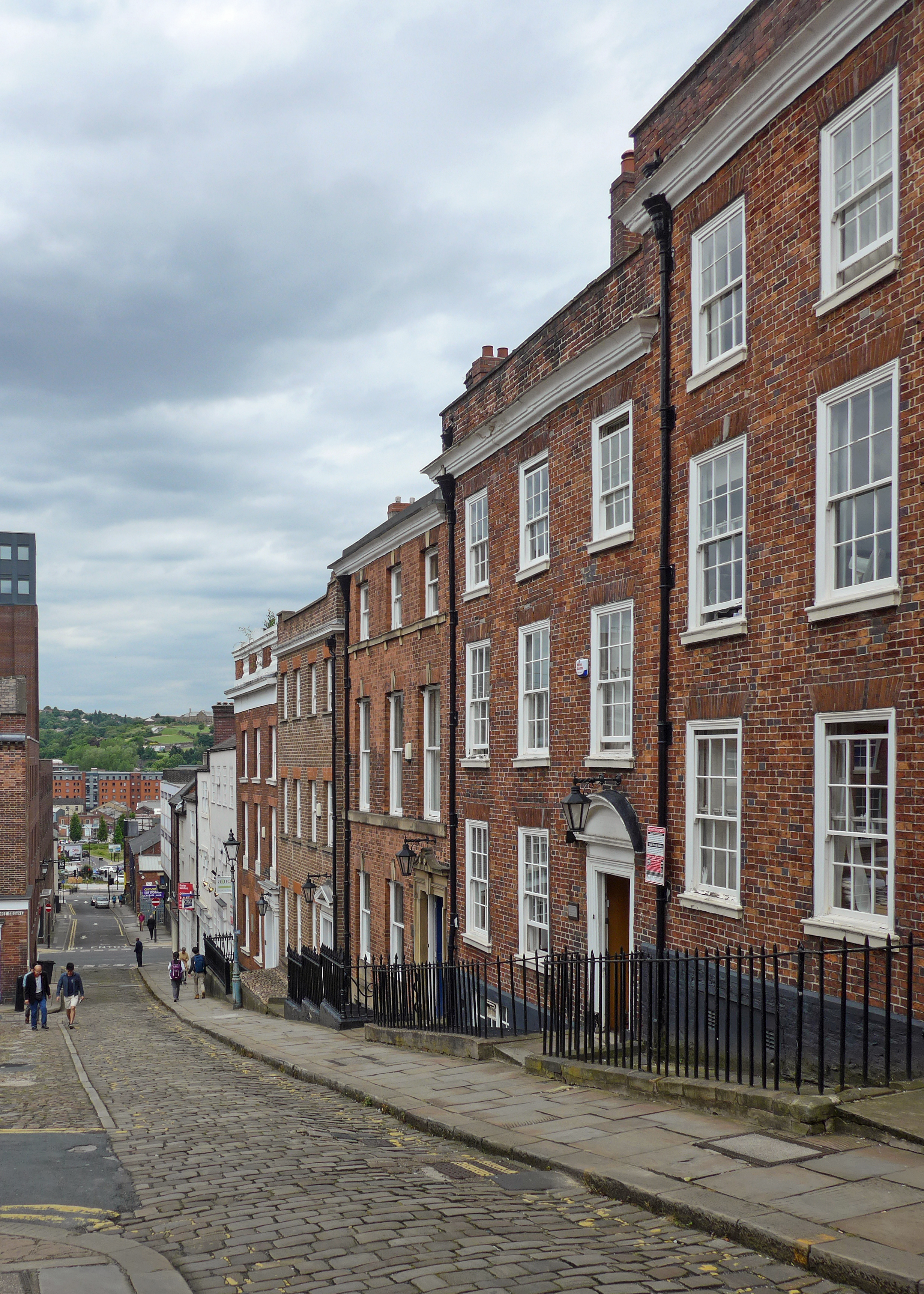 Sheffield